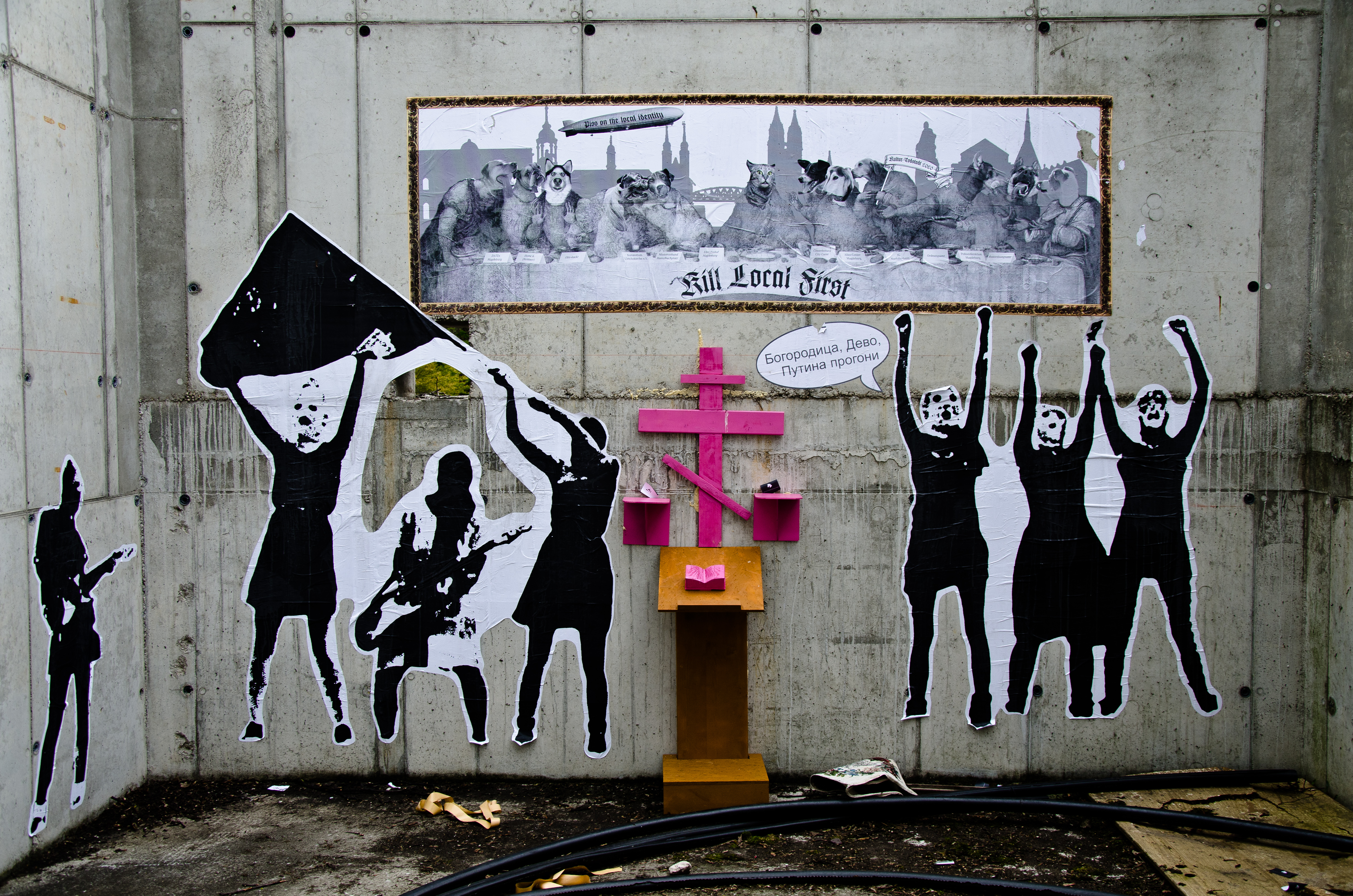 "Church of Pussy Riot"